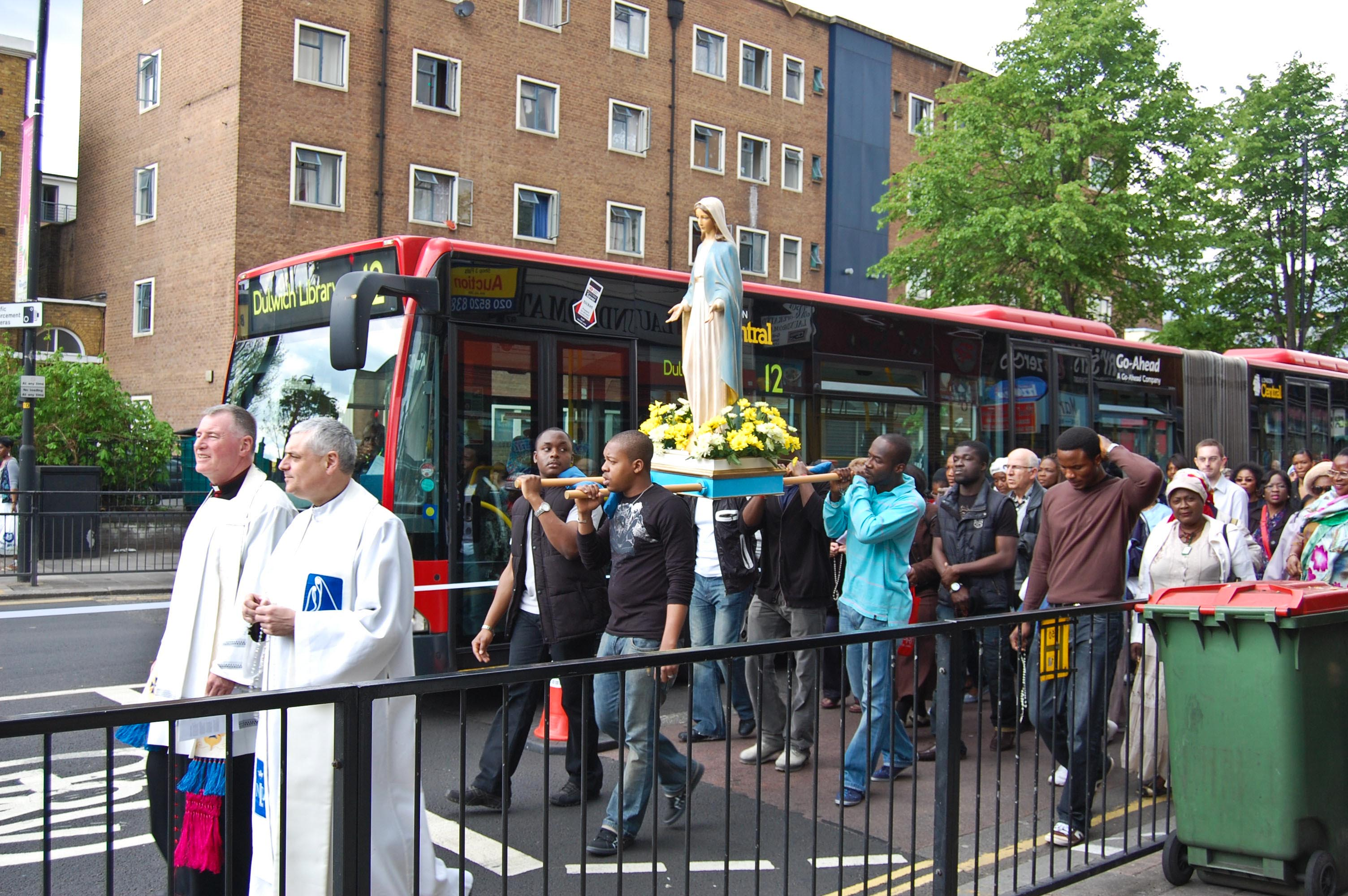 Catholic Maryian procession up Camberwell Road, London SE5 on 1st May 2010. Unofficial escort of bendy buses!